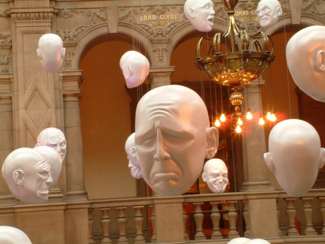 Cheer up These heads were at the time of my visit hanging from the roof of the Kelvingrove Museum and Art Gallery in Glasgow.